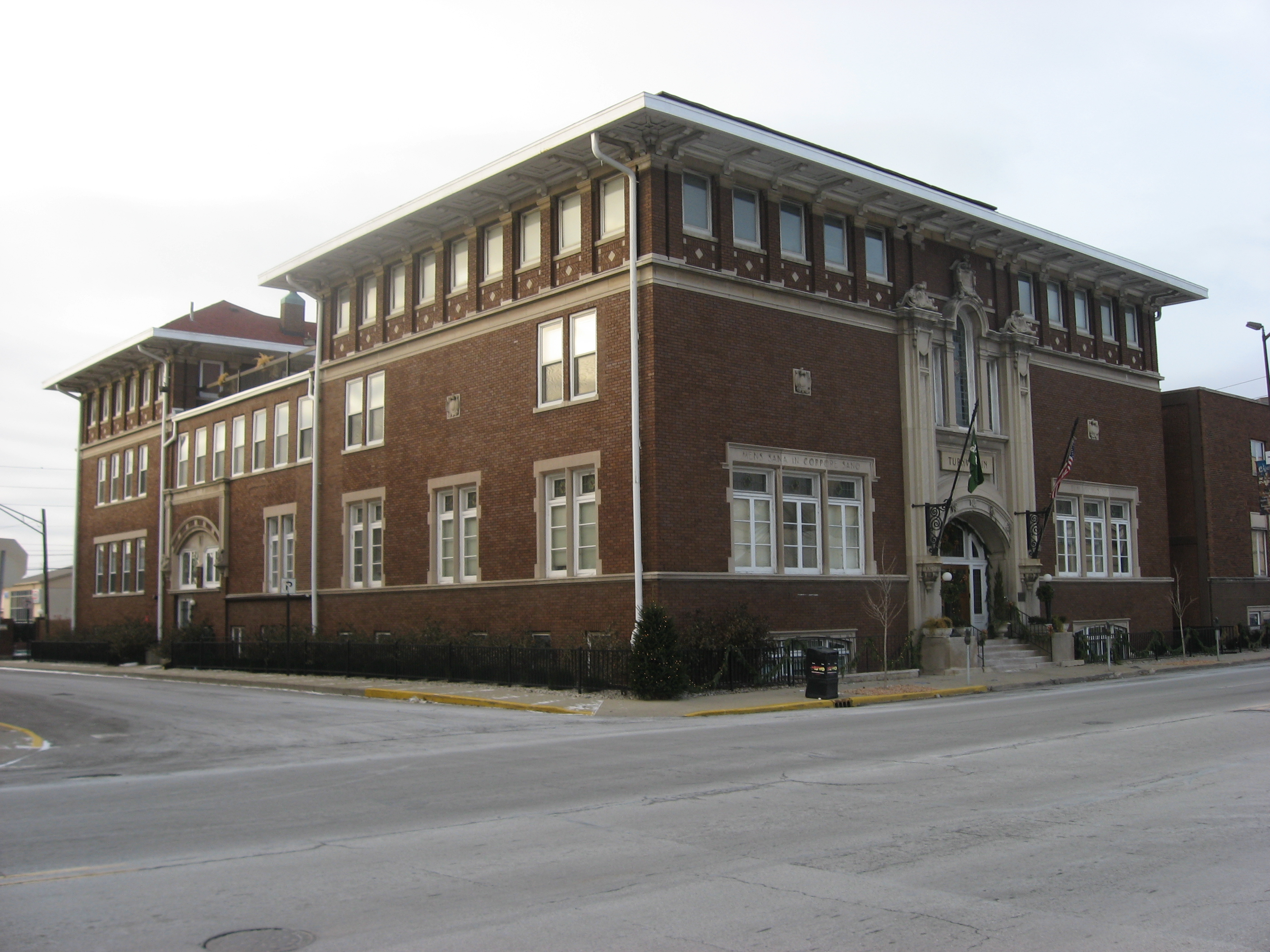 Front and southern side of the Independent Turnverein, located at 902 N. Meridian Street in Indianapolis, Indiana, United States. Built in 1913, it is listed on the National Register of Historic Places.